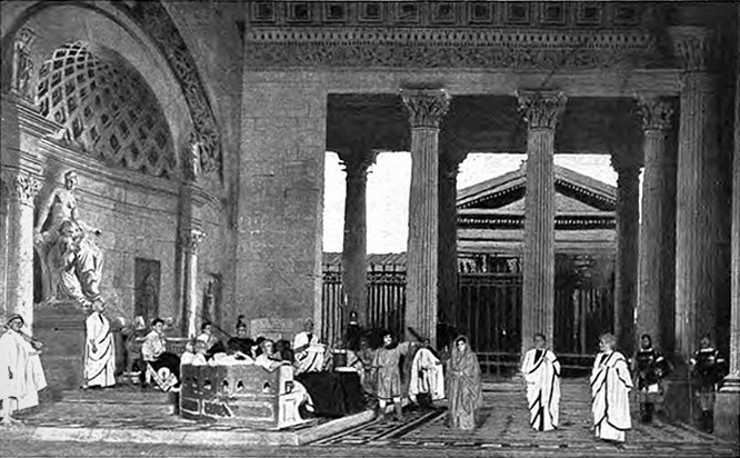 Nikolai Rimsky-Korsakov - Servilia - act 5 - temple of Venus - decoration by Orestes Allegri, 1902